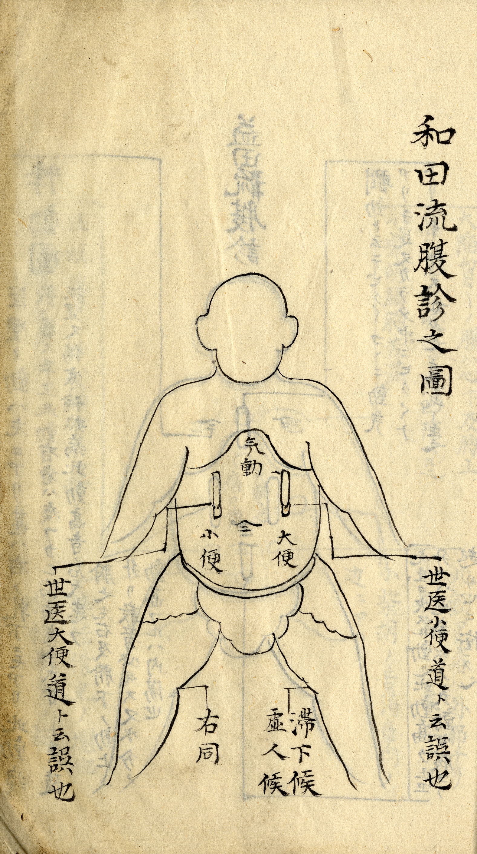 Illustration of the Wada-style palpation diagnosis in an Edo-period Japanese manuscript (Genshinkan shichisoku kai, Explanation of the seven principles of Genshinkan) going back to the teachings of the physician Murai Kinzan (alias Genshinkan, 1733-1815). Collection W. Michel (Fukuoka, Japan)